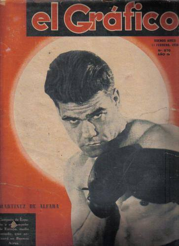 Cover of El Gráfico featuring boxer Josep Martínez Valero.